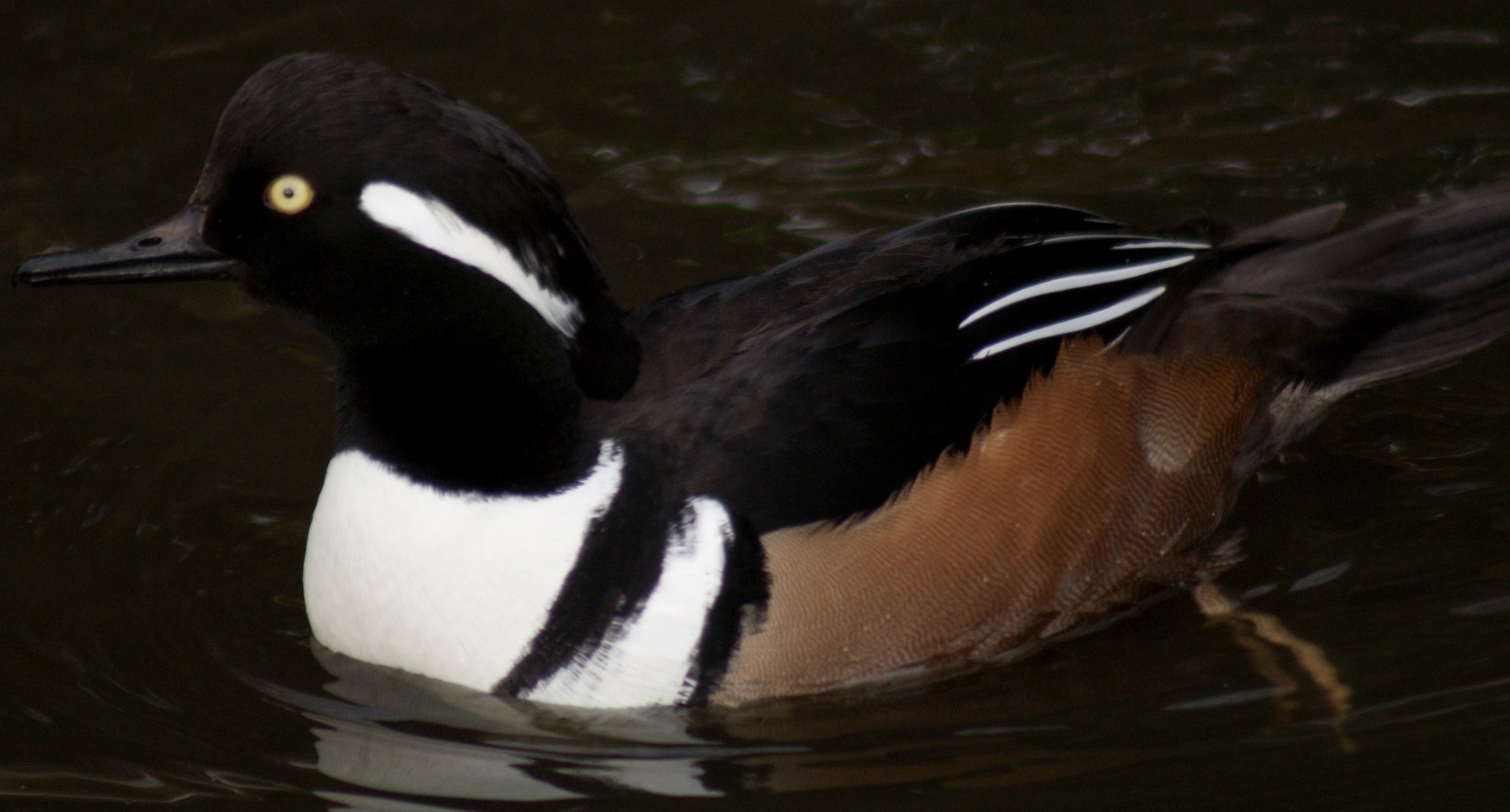 Lophodytes cucullatus - Hooded Merganser